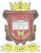 Seal of Teabo